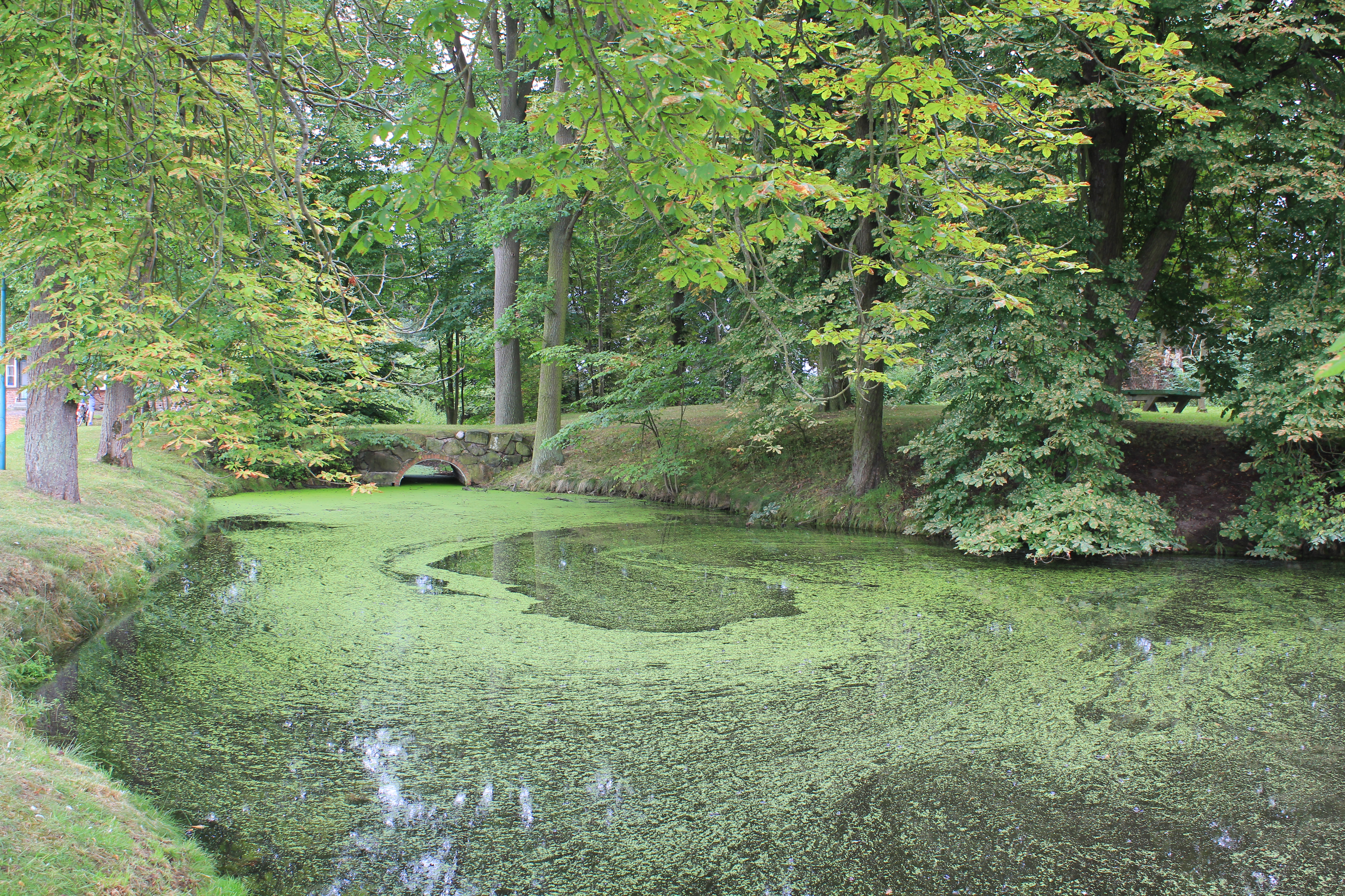 Place of the former castle in Woosten, Germany